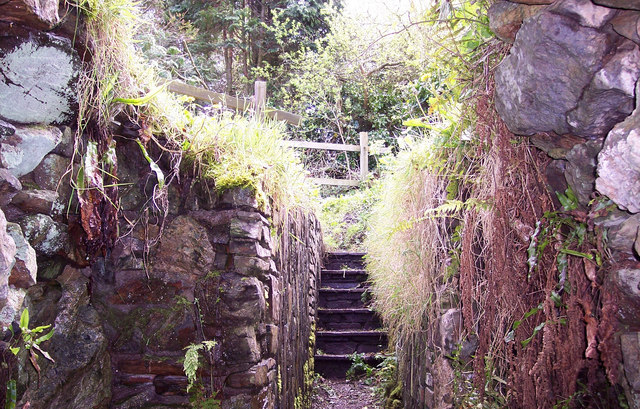 Halliggye Fogou One of the largest and best preserved of these fogou (curious underground passages) this one originally passed under the rampart of a defended Iron Age settlement. The passage is up to 1.9m high with a corbelled roof and heavy stone lintels and jambs, 54 feet long and built around 1000BC.